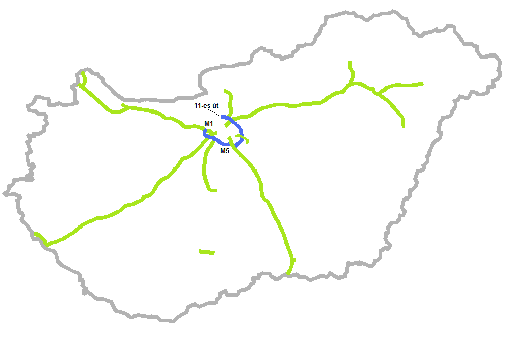 Toll and tollfree motorways in Hungary for category D2, D3 and d4, 2008 dec Dark blue line:Motorways owned by the Hungarian state, free of charge Green line:fee payment by vignette